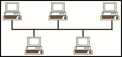 बस टोपोलॉजी (Bus Topology)